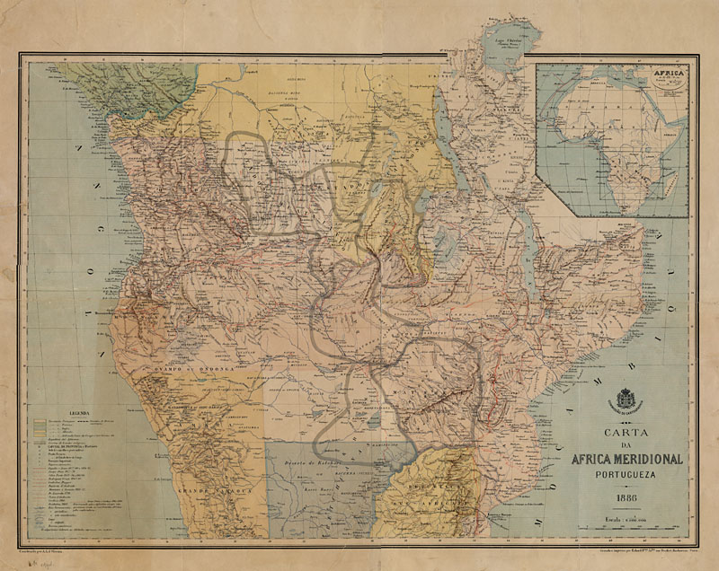 Original version of the Pink Map